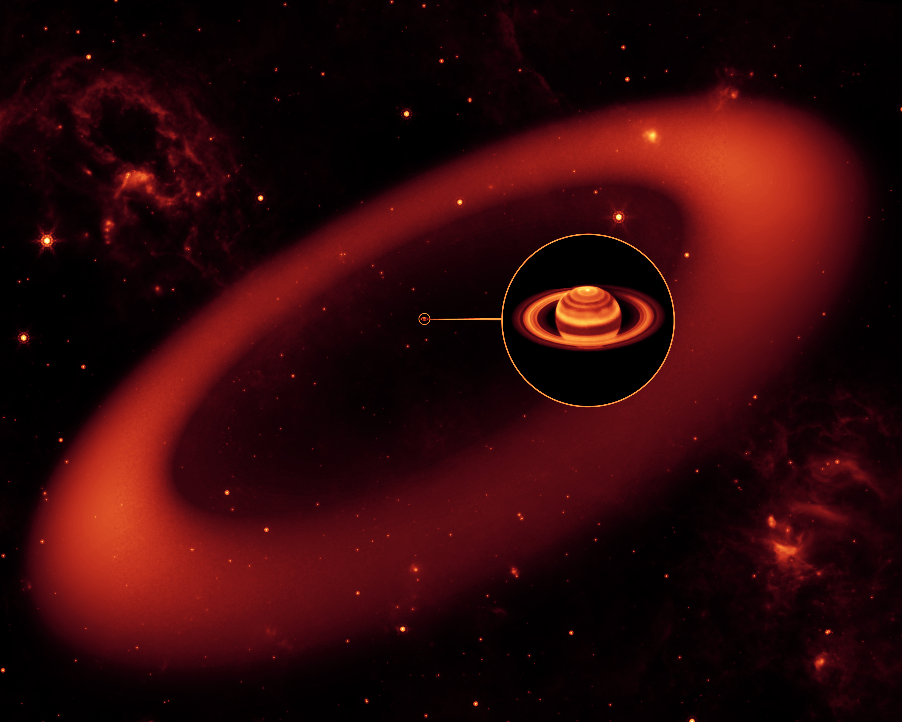 This artist's conception shows a nearly invisible ring around Saturn — the largest of the giant planet's many rings. It was discovered by NASA's Spitzer Space Telescope.